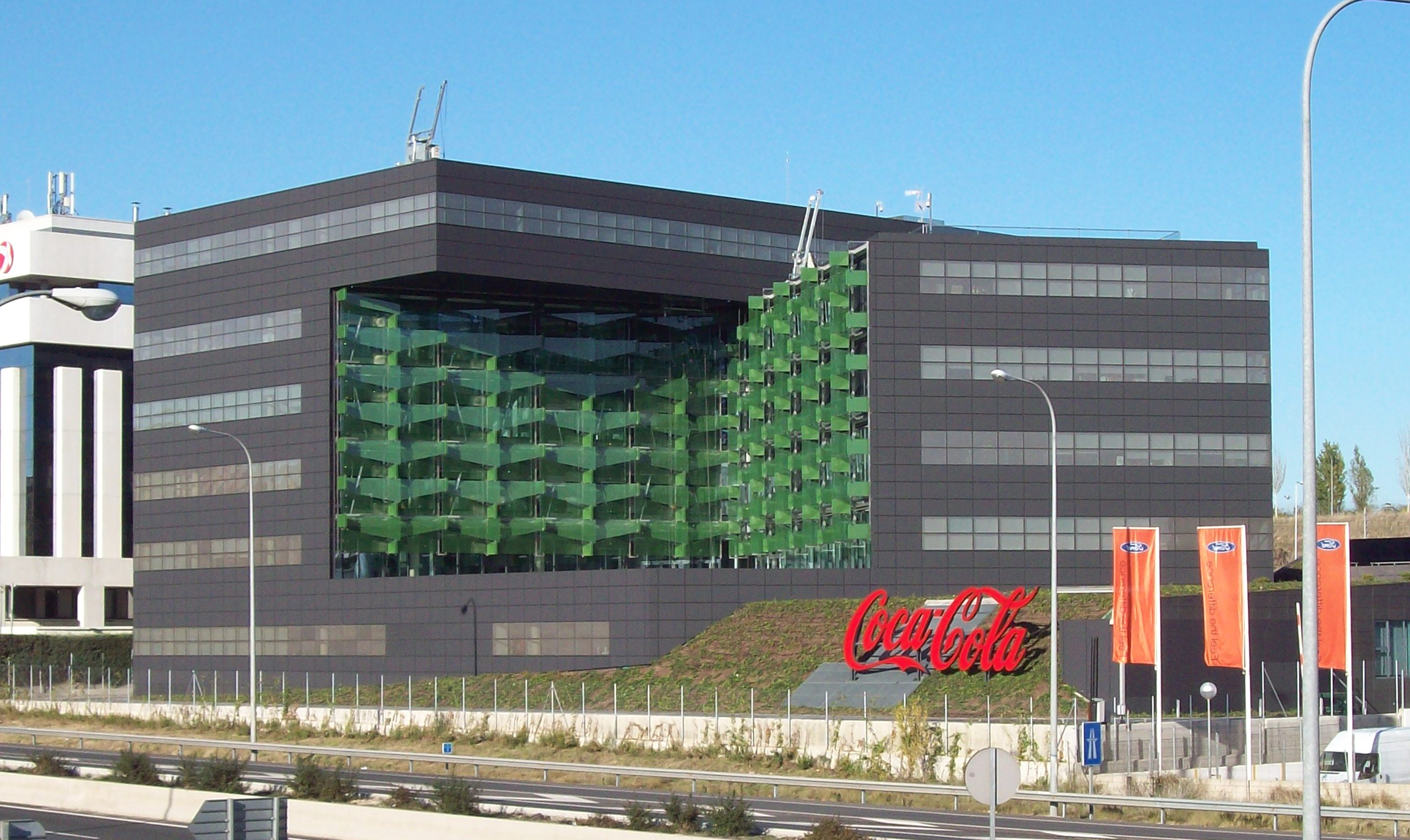 View of Coca-Cola offices in Madrid (Spain).